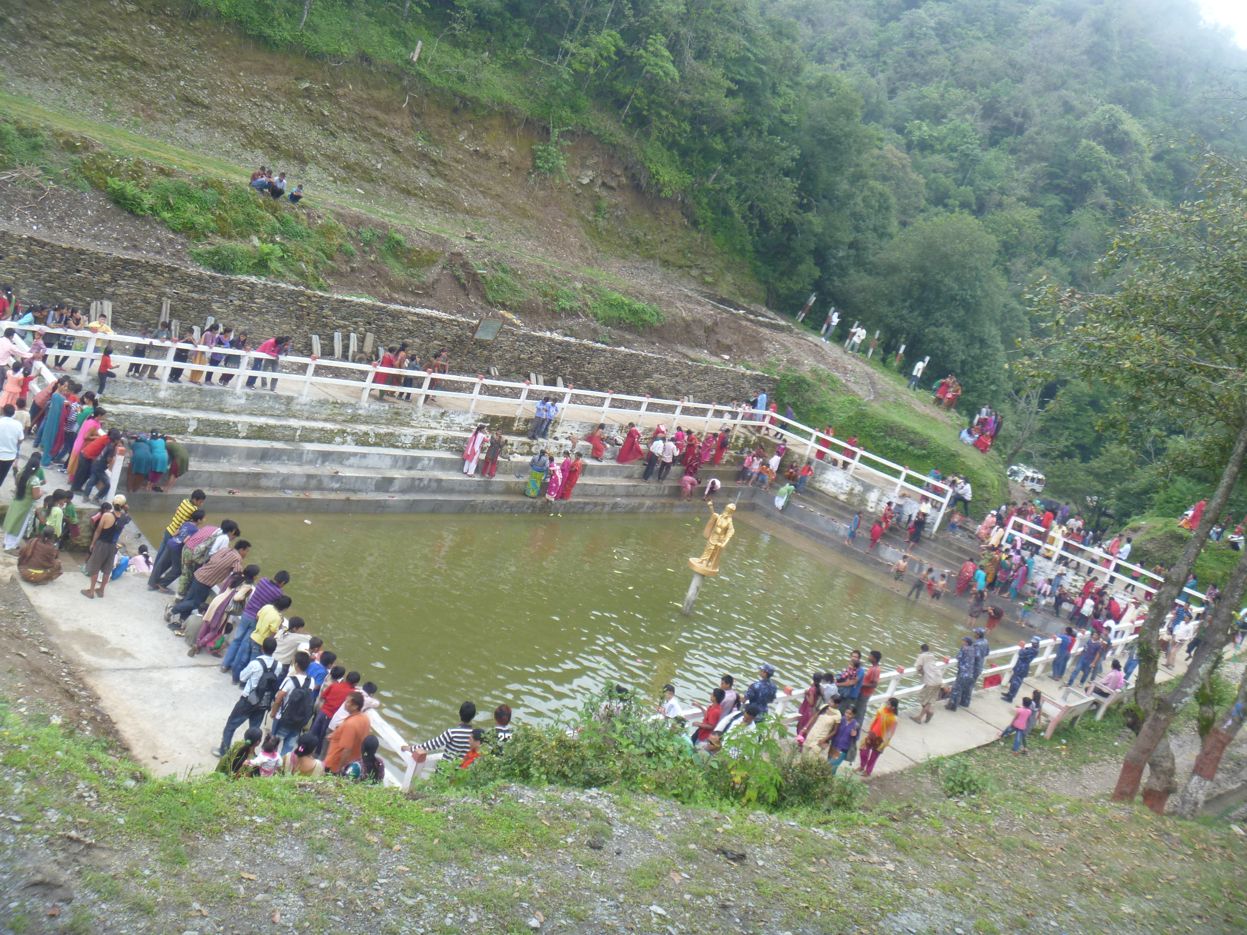 A shrine in Gulmi district in Nepal.